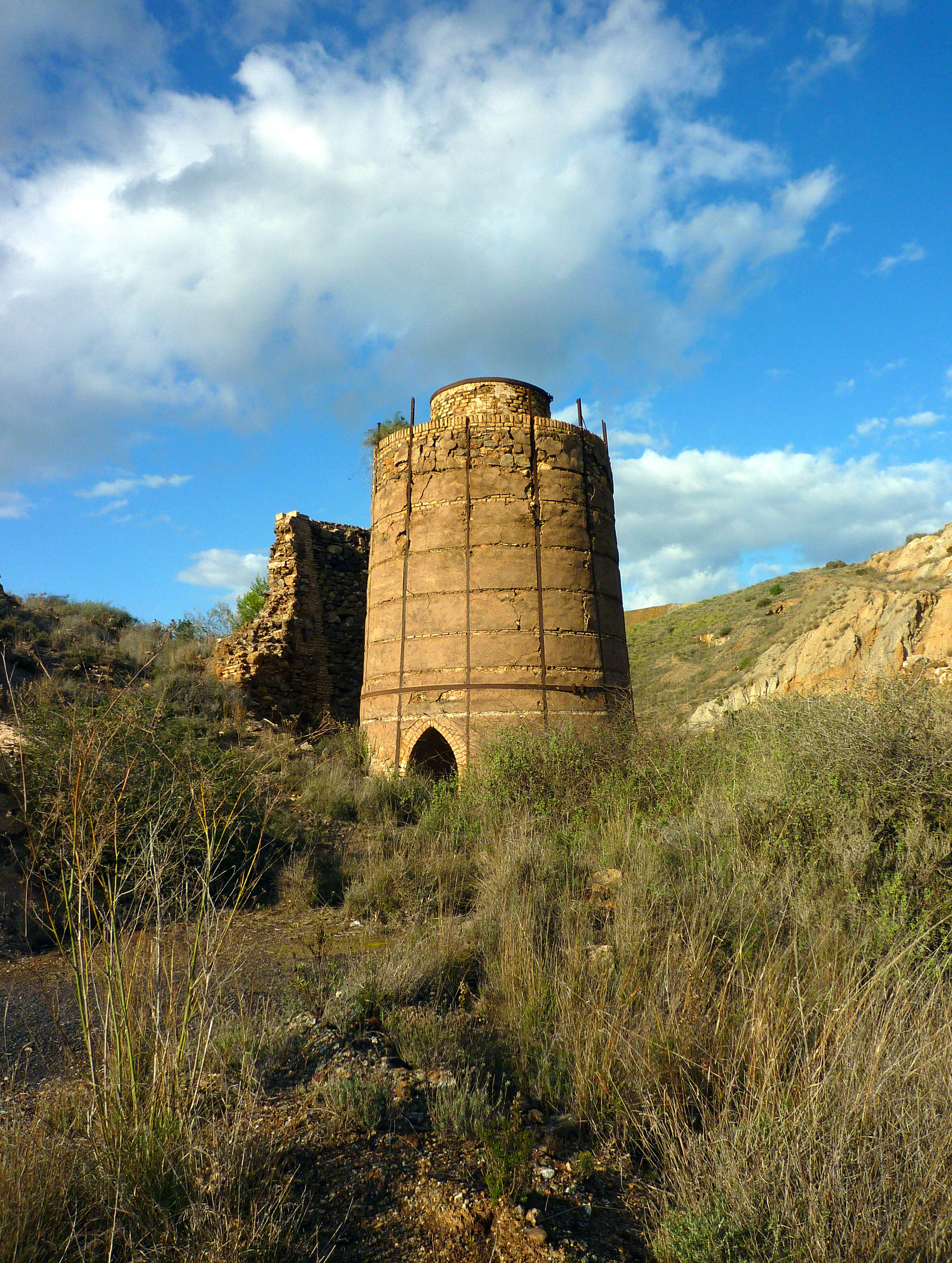 The ruins of "Mina Inocente", a XIX century mine in Cartagena.